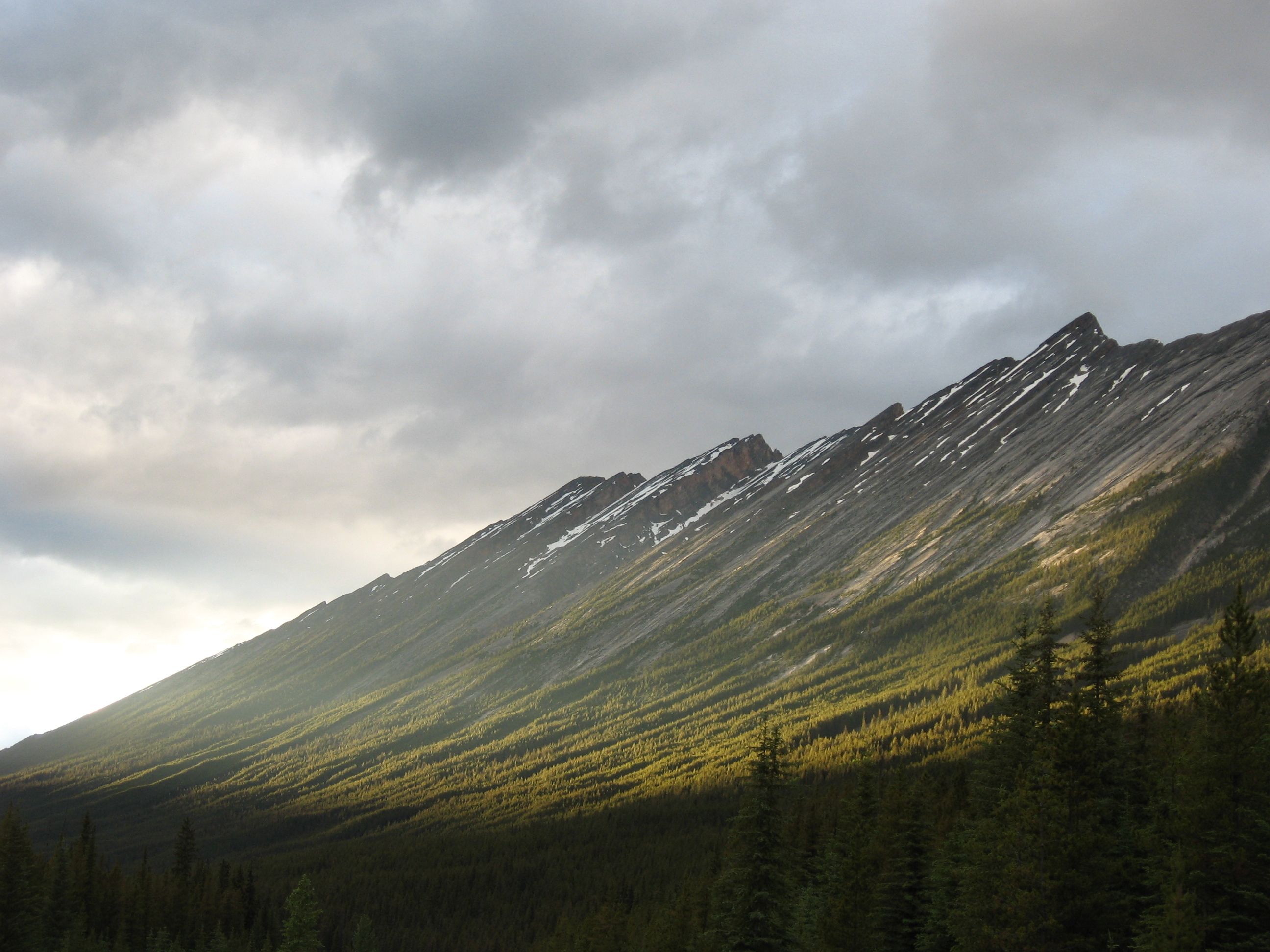 A sunset view in Jasper National Park